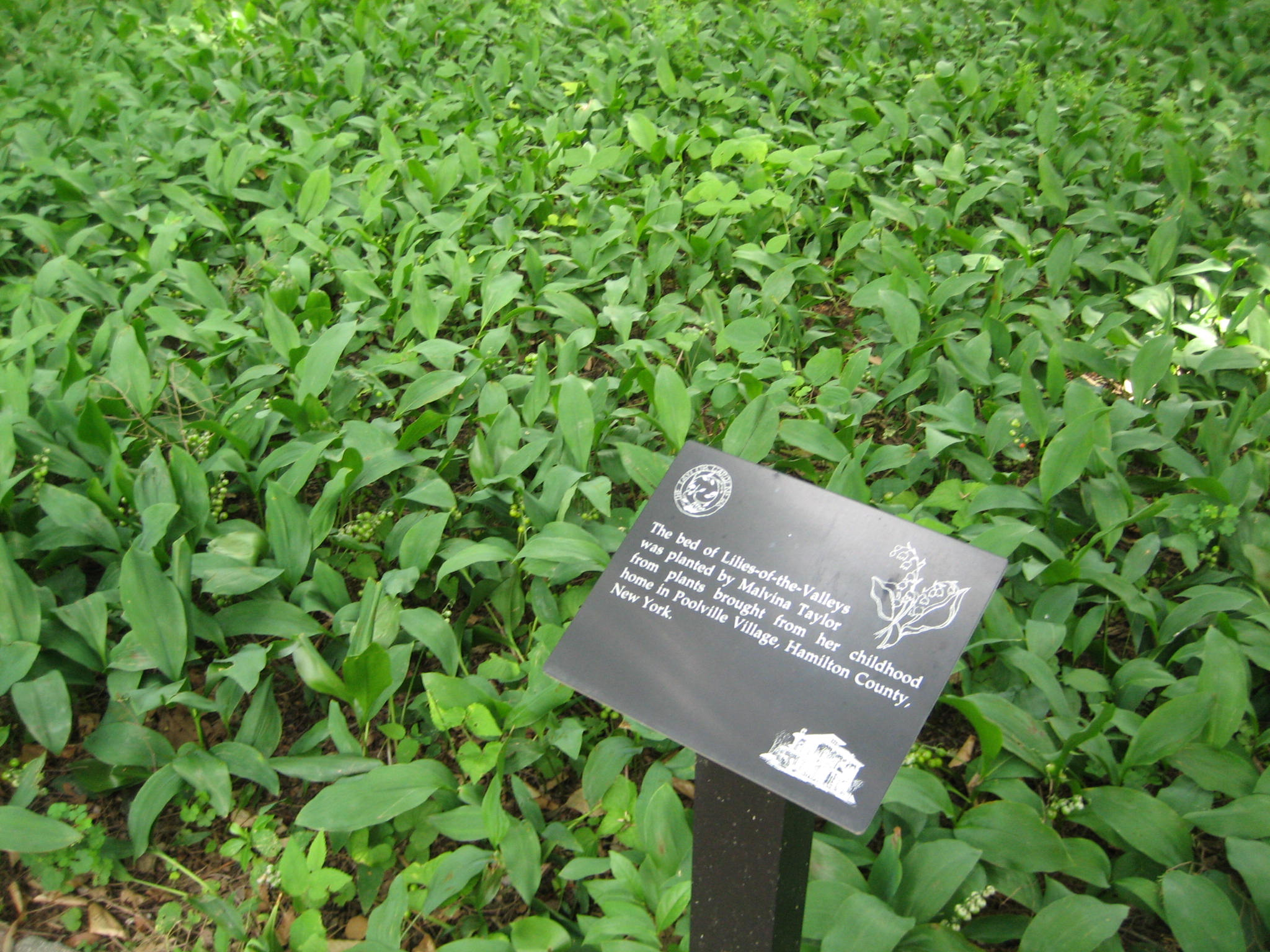 Oscar Taylor House, a bed of lily of the valleys planted originally planted by Malvina Taylor and brought from her hometown in New York state, USA. Freeport, Illinois USA. U.S. National Register of Historic Places.